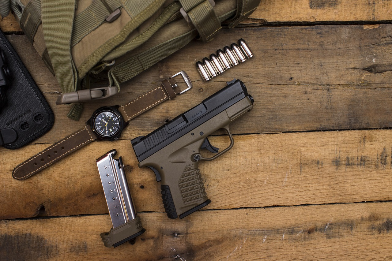 black/fde color XDS 9mm 3.3 pistol.